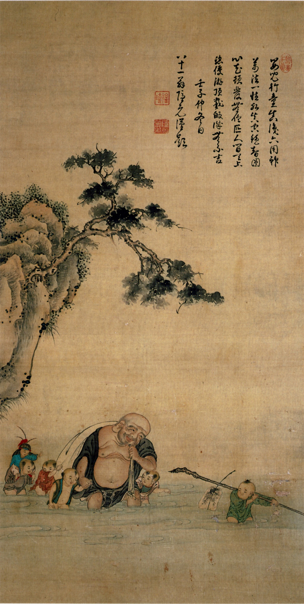 Budai Crossing the River ,Attributed to Watanabe Shuseki,Inscription by Yinyuan hanging scroll,color on silk